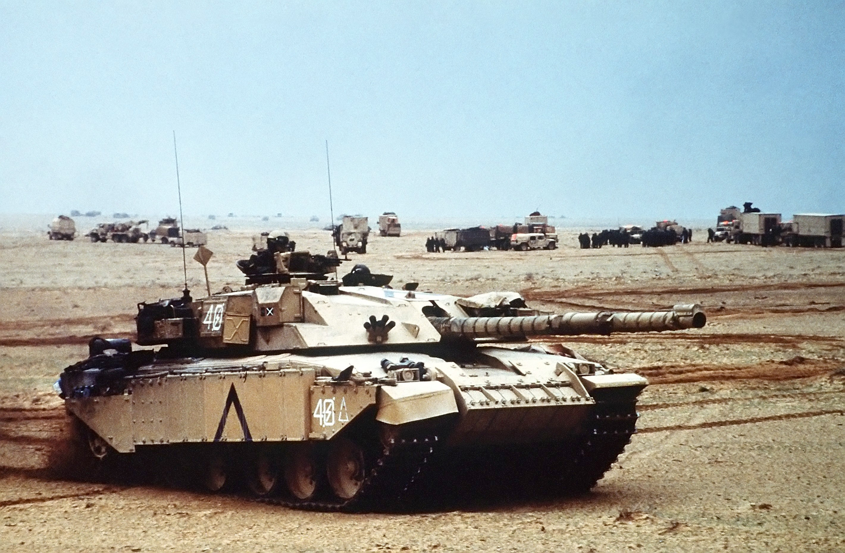 A British Challenger main battle tank, the squadron leader of D Sqn, Royal Scots Dragoon Guards, moves into a base camp along with other Allied armor during Operation Desert Storm.